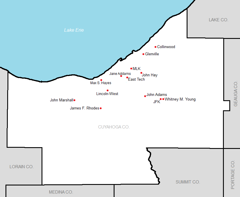 Map showing the current members of the Senate Athletic League as of February 2015.